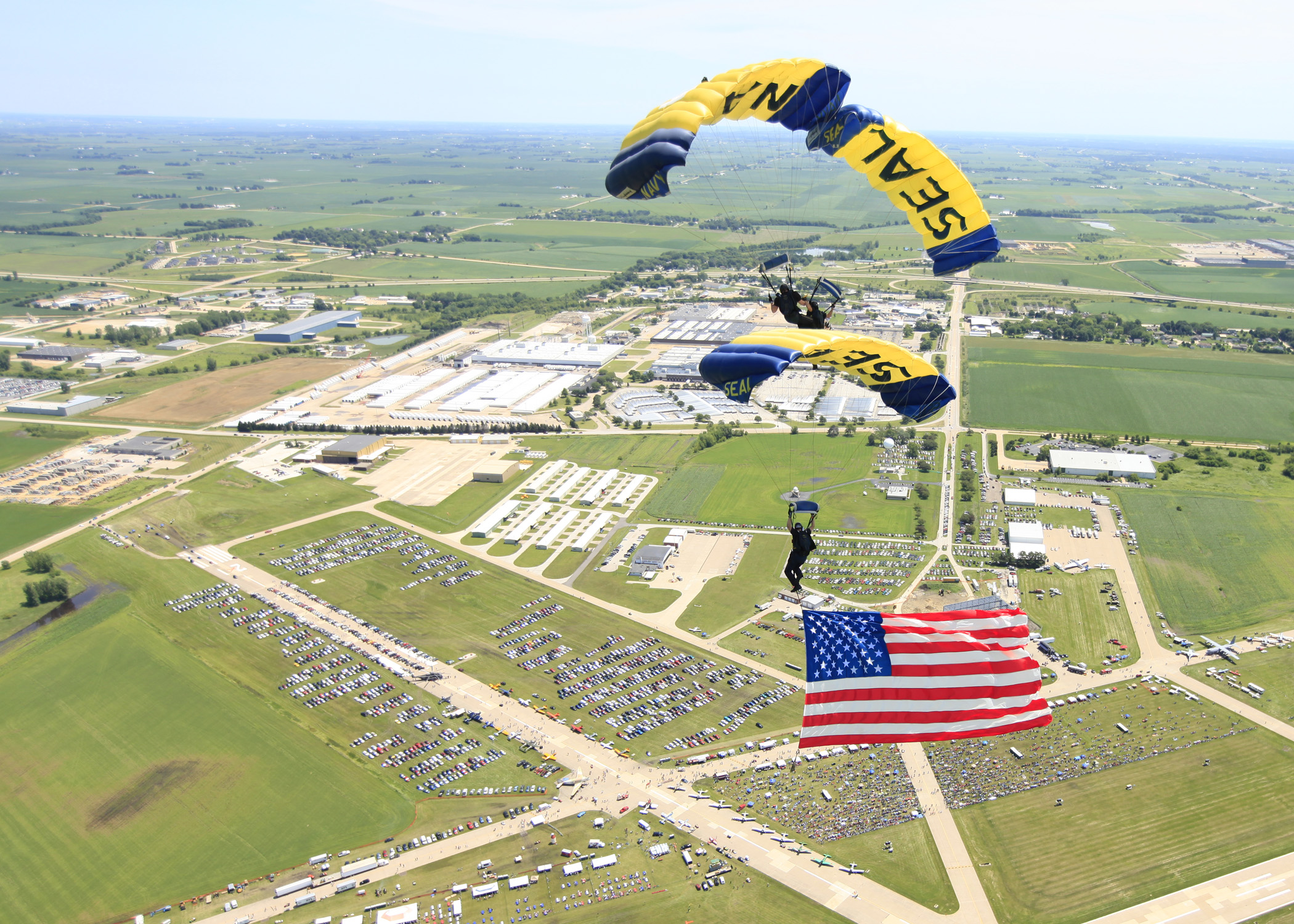 DAVENPORT, Iowa (June 26, 2010) Members of the U.S. Navy parachute demonstration team, the Leap Frogs, perform a "T" formation above Davenport Municipal Airport during the opening ceremony of the Quad City Air Show. Nearly 100,000 airshow enthusiasts attend the two-day event, which also featured performances by the Navy F/A-18C Hornet and Air Force F-15 Strike Eagle demonstration teams. The Leap Frogs are based in San Diego and perform parachute demonstrations across the country supporting Naval Special Warfare and Navy Recruiting Command. (U.S. Navy photo by James Woods/Released)